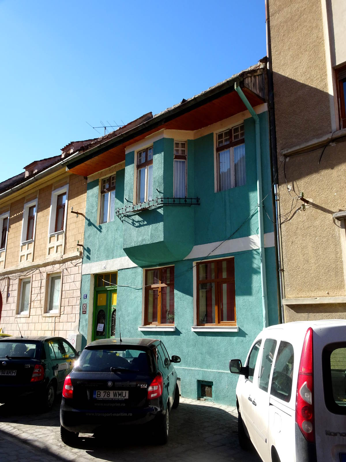 Strada Cerbului in Brasov, house number 14, historic monument